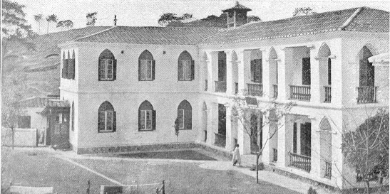 Fuh-Chow Theological College, today Shipu Church in Fuzhou